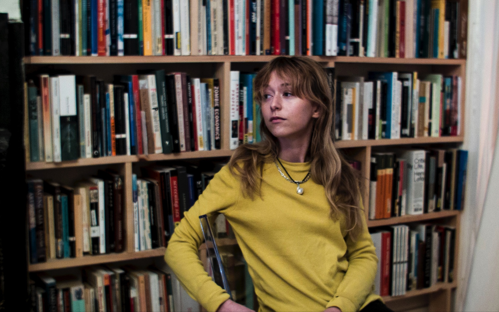 India Ennenga in interview